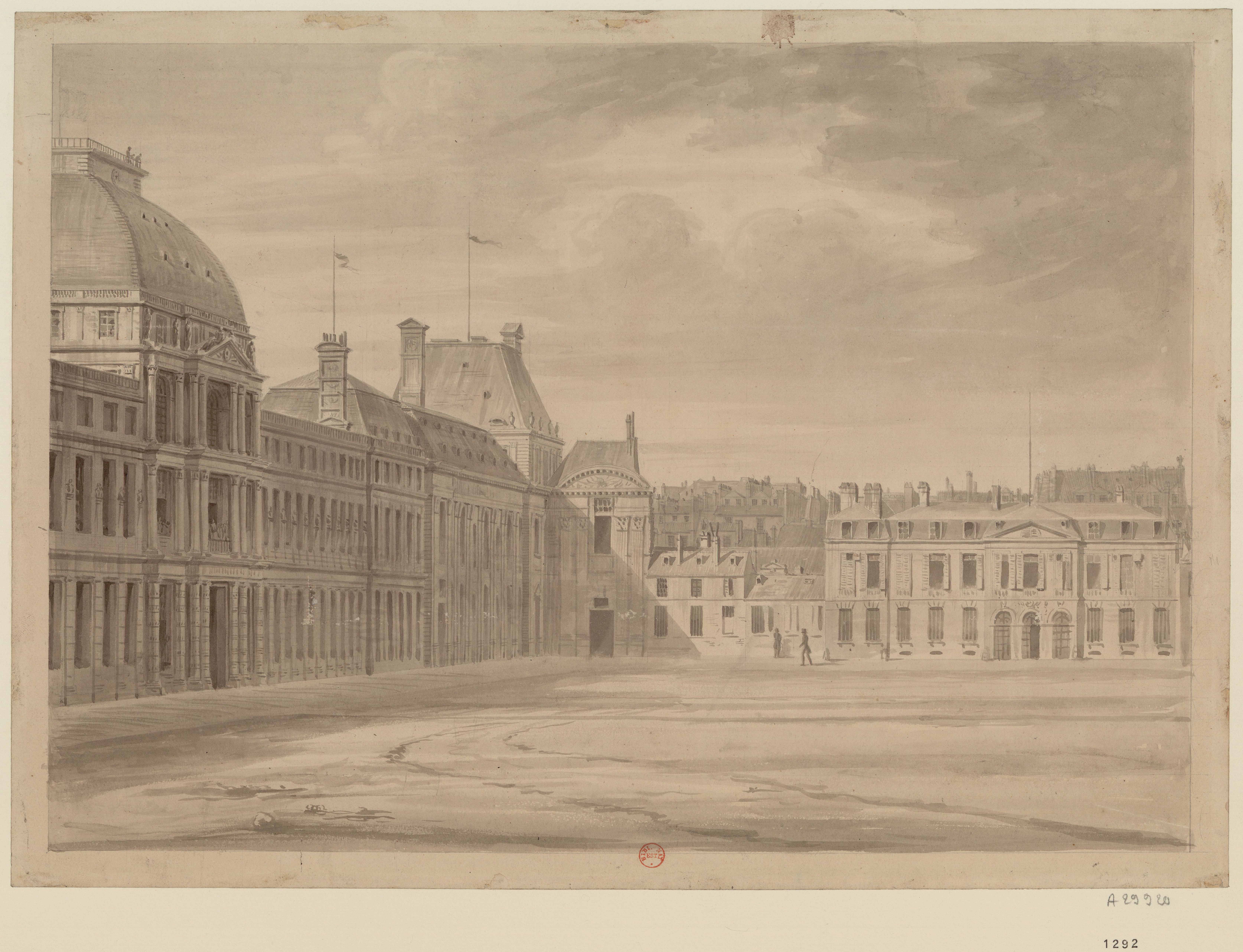 Drawing of the east facade of the Tuileries Palace in Paris and the first bay of the Louvre's Aile Nord, as constructed by Louis Le Vau in 1664–1666, and the south facade of the Hôtel de Brionne, as reconstructed by Robert de Cotte in 1735. The Hôtel de Brionne was demolished before 1811, when the Aile Nord was extended east toward the Louvre by Percier and Fontaine. It is not shown in this engraving from 1793.